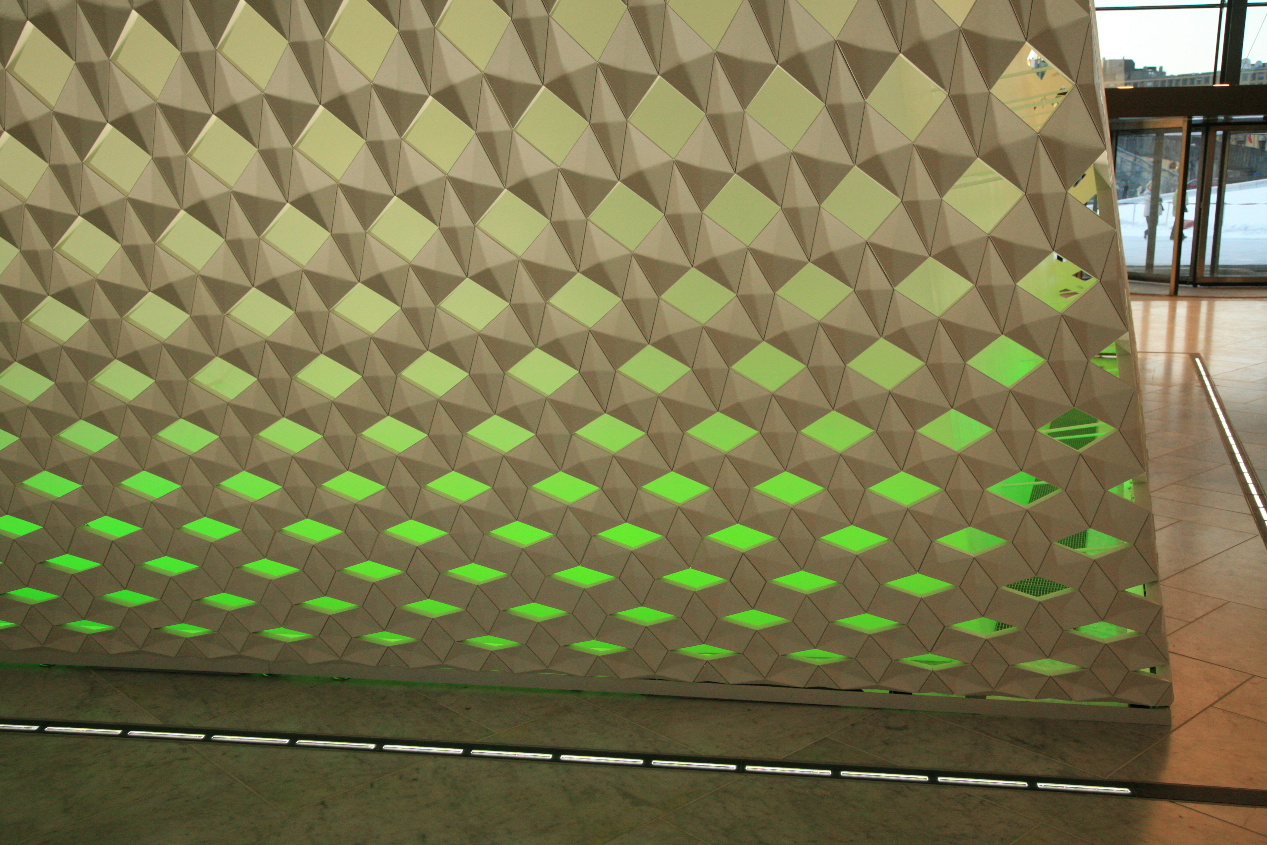 Interior of Oslo Opera house. Permanent installation, 'The other wall', by Olafur Eliasson.